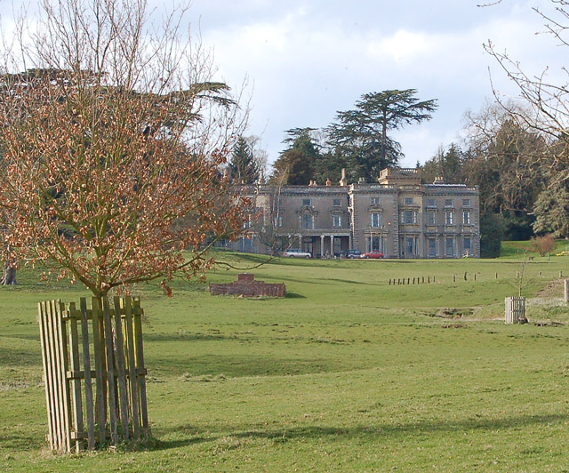 Upper Shuckburgh Hall Shuckburgh Hall, a large country house in a landscaped park, seen from the public footpath through the estate.